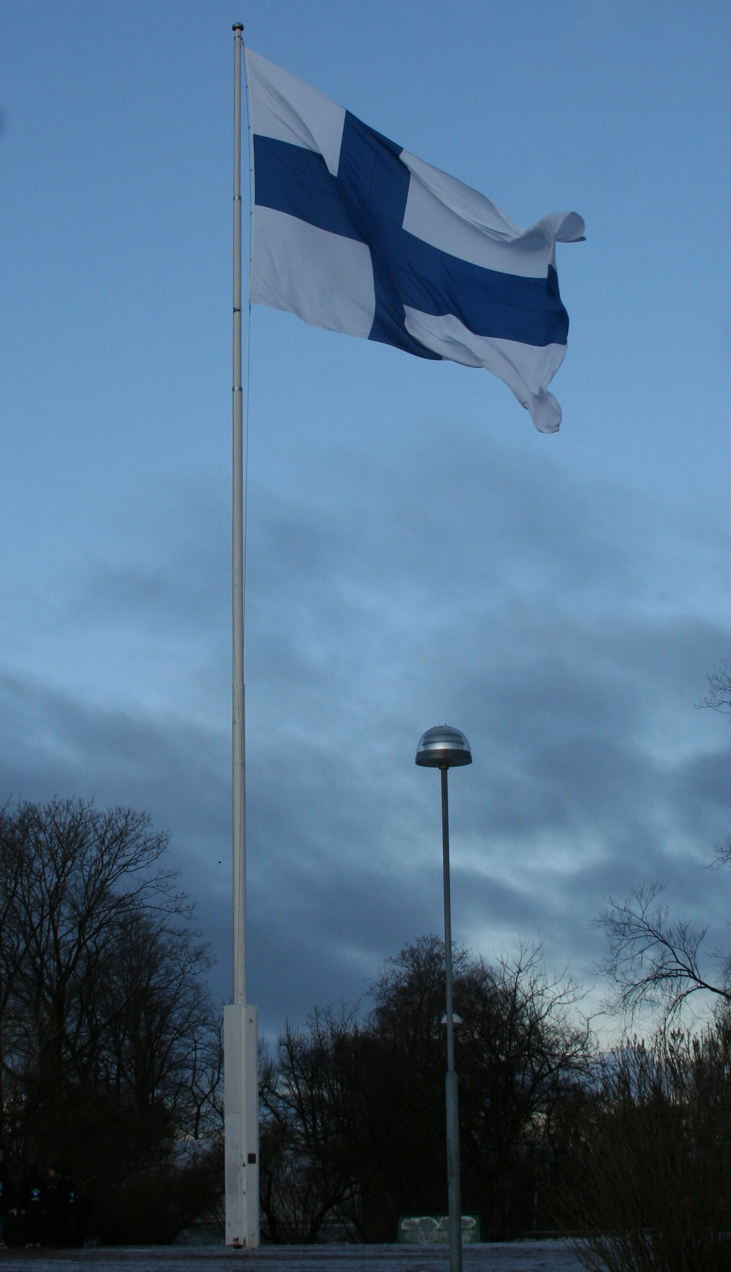 Finnish flag on independence day 2011, Tähtitorninmäki, Helsinki, Finland